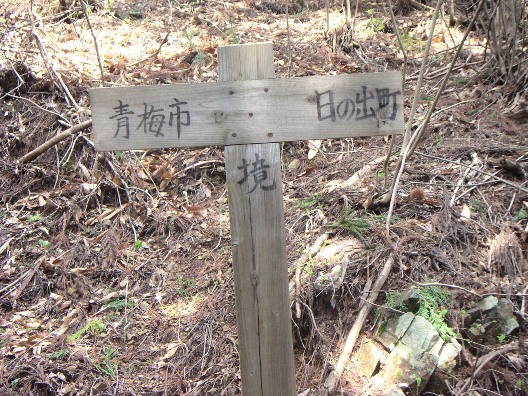 Border of Ōme city and Hinode town